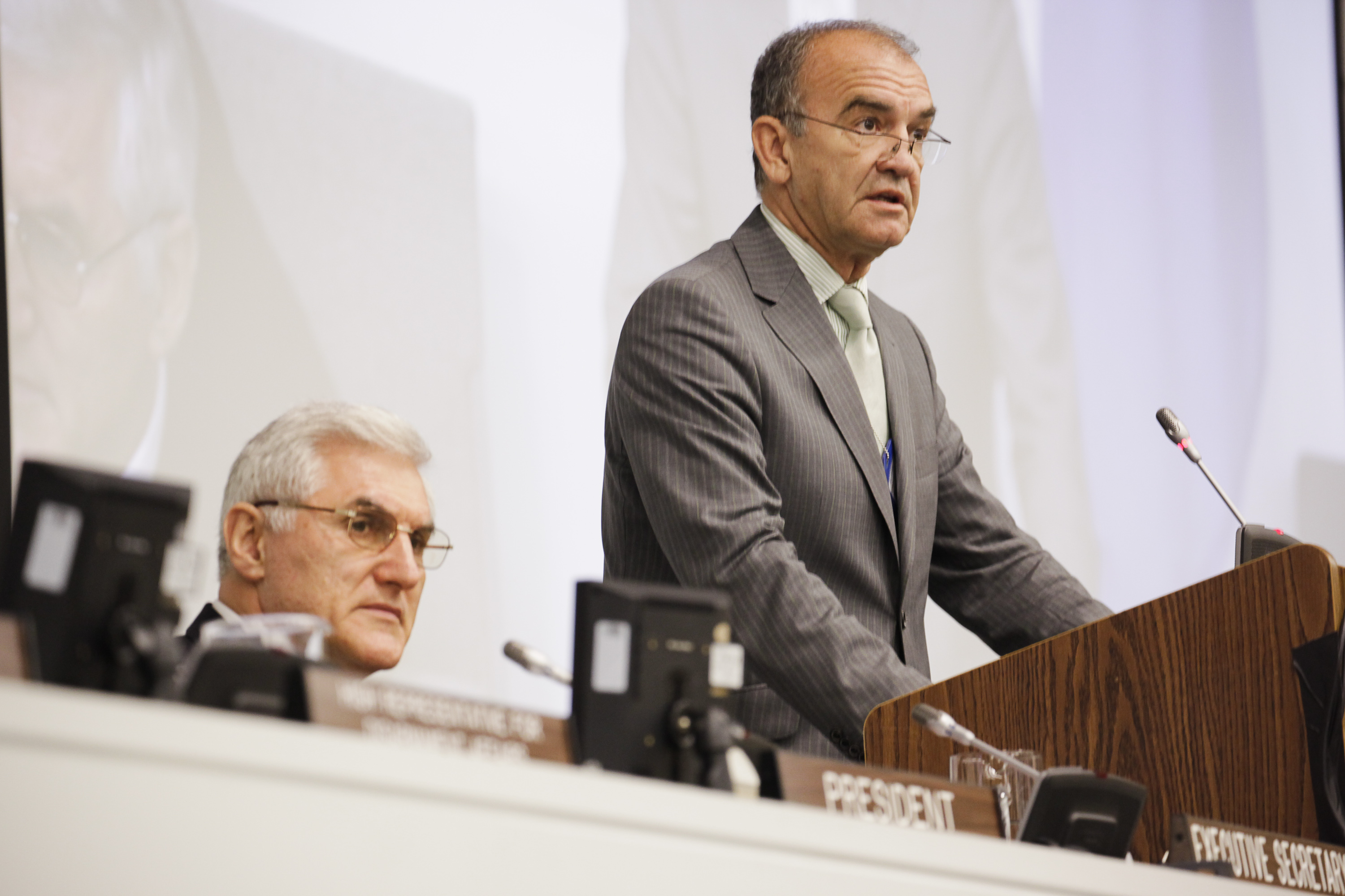 23 September, 2011 - New York Minister-Counsellor, Head of Department at the UN for Bosnia and Herzegovina, Željko Jerkić, at the Conference on Facilitating the Entry into Force of the Comprehensive Nuclear-Test-Ban Treaty. Photographer: James Leynse Copyright CTBTO Preparatory Commission